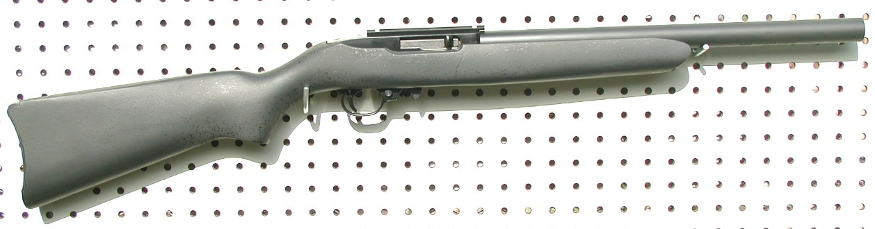 AWC Ultra II integrally-suppressed Ruger 10/22 with AWC tactical stock. The sound suppressor is made of 300 series stainless steel and has a 1" diameter closely resembling a bull barrel. Barrel length is 16.5" (overall length 34.5"). Weight is 6.0 lbs. Weapon qualifies as a Class III weapon in the U.S.